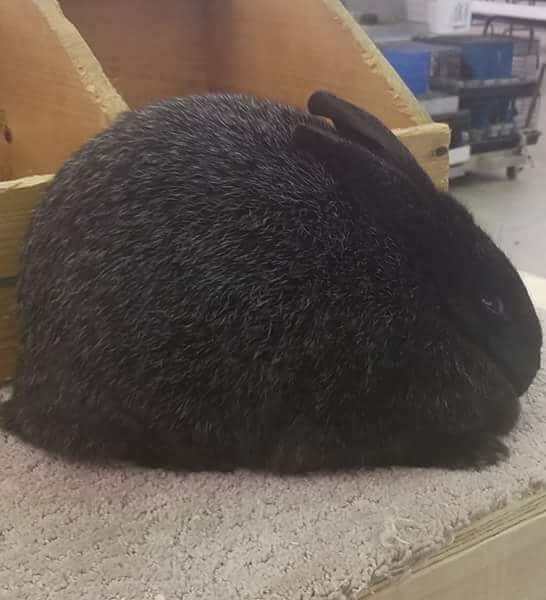 Image if Silver FOx Rabbit